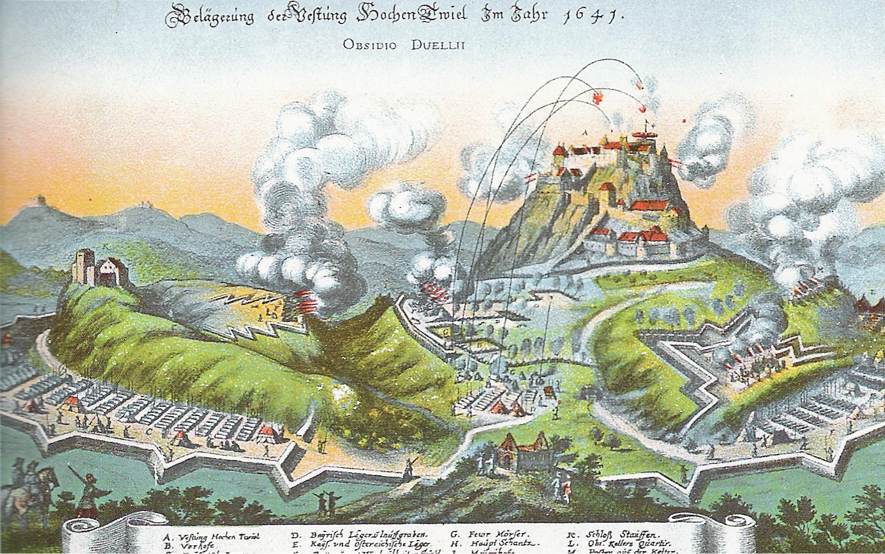 Castle Hohentwiel in southern germany, near Lake Constance.